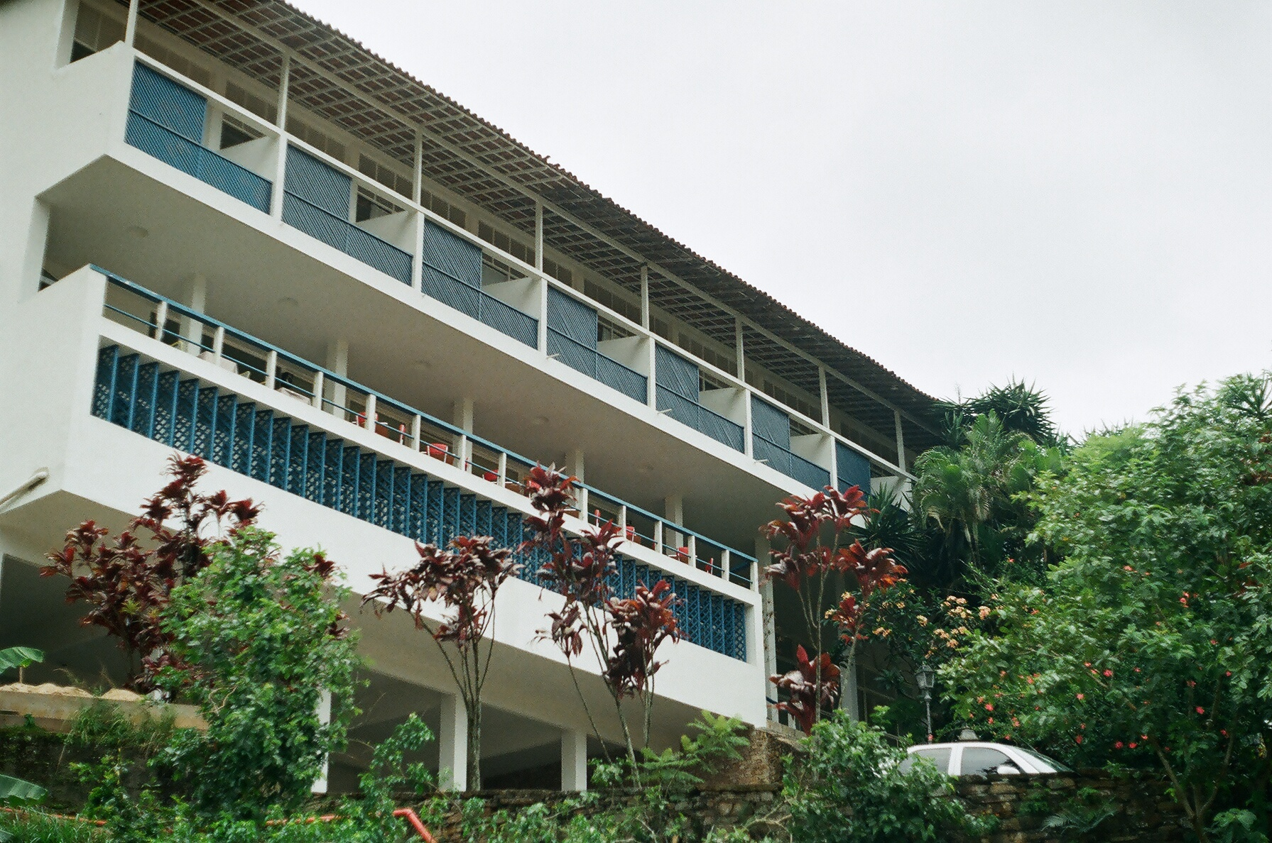 Grand Hotel Ouro Preto